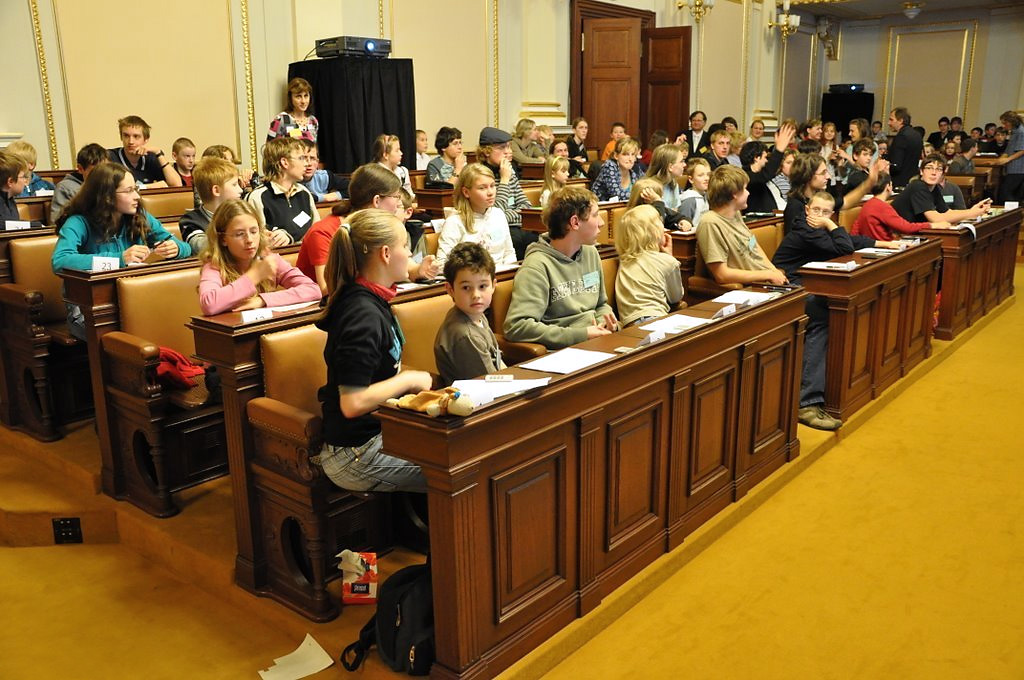 “Olympics of Logic”—a competition for children organised by Mensa Czech Republic (national group of Mensa International)